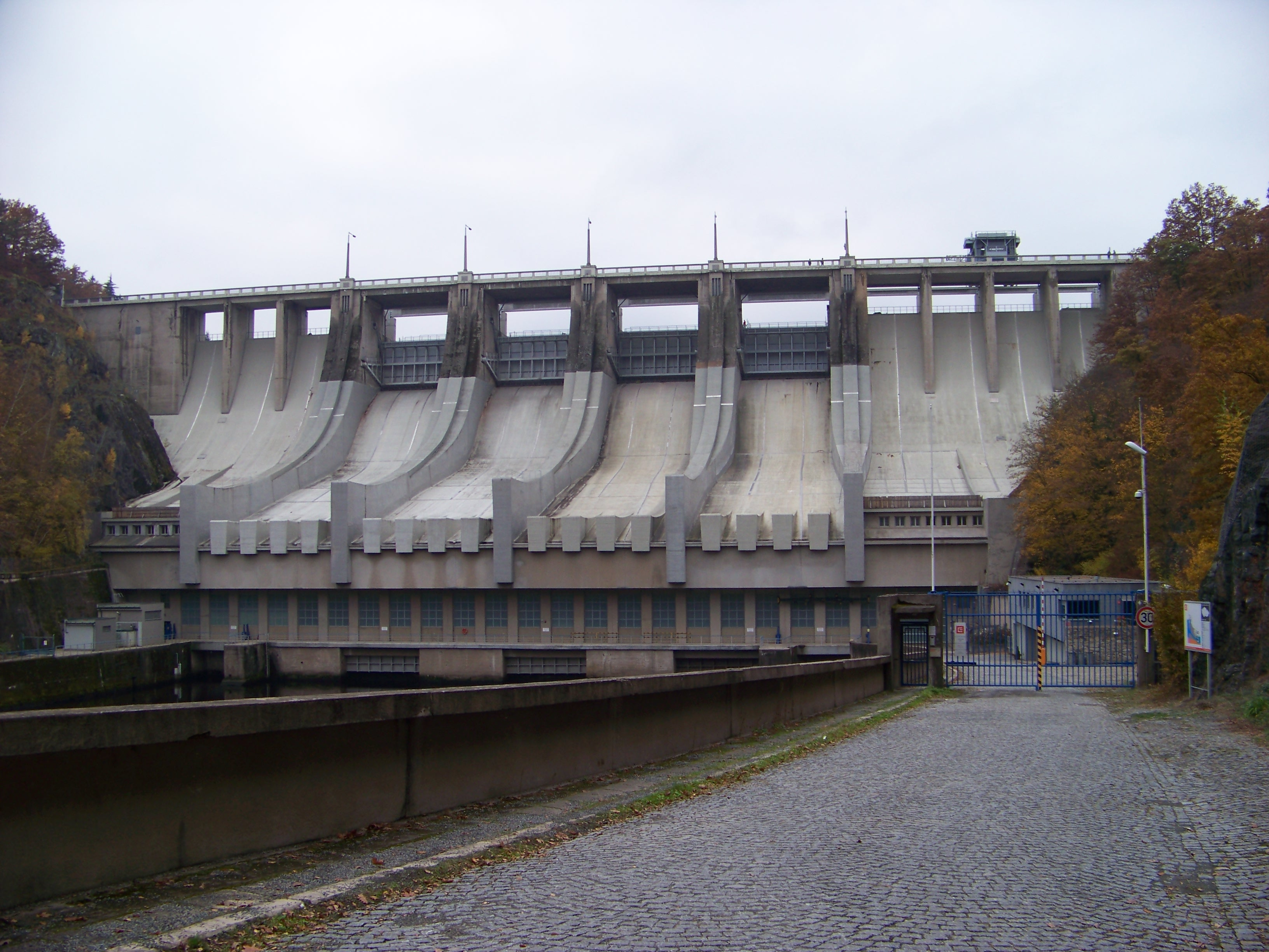 Rabyně, Benešov District and Štěchovice-Třebenice, Prague-West District, Central Bohemian Region, the Czech Republic. Slapy dam.